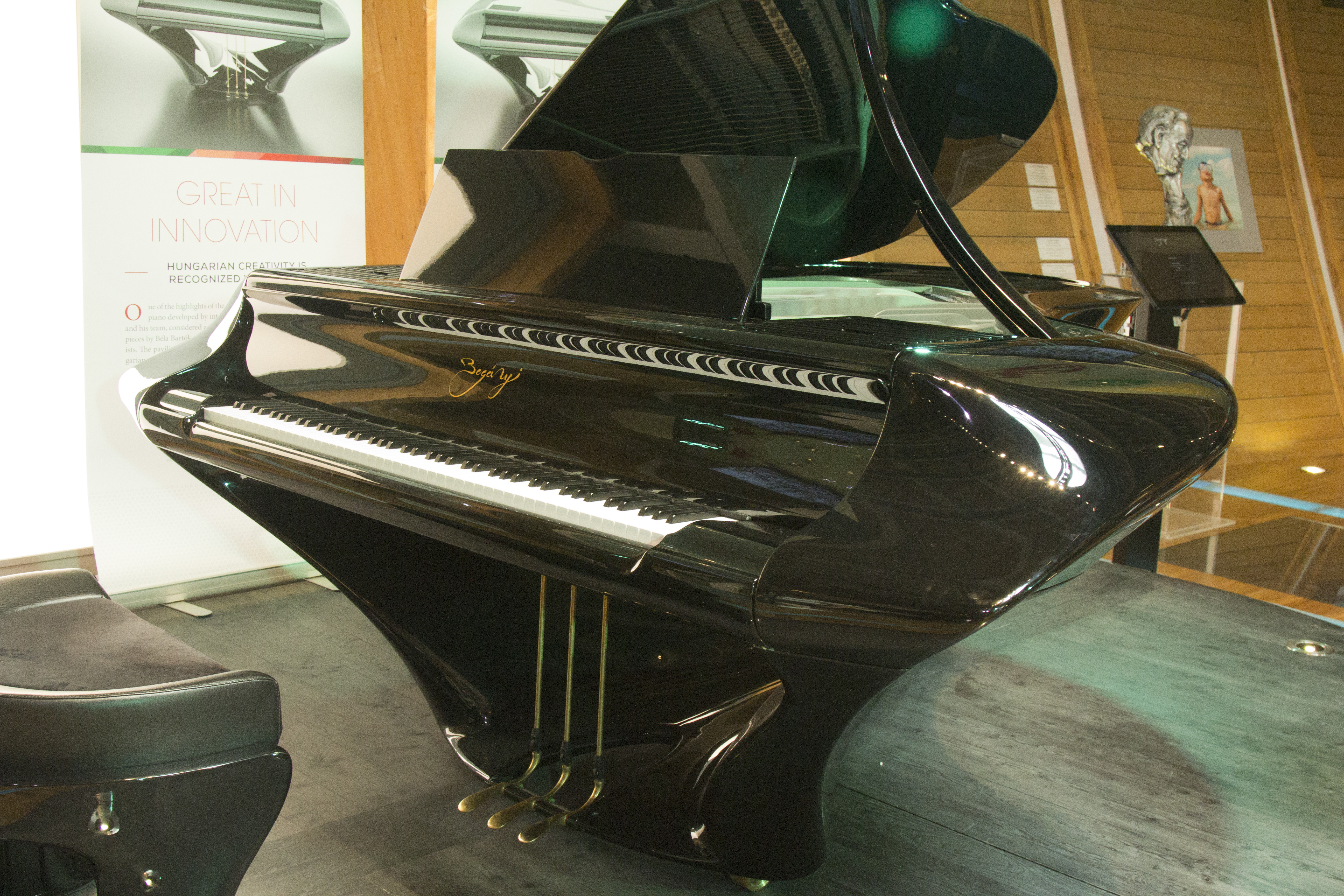 EXPO 2015 Milan from Flickr album "EXPO 2015" by Luca Nebuloni References The Story. Bogányi Piano . Zengafons Ltd. Zengafons Kft. [Zengafons Ltd.]. Zengafons.hu.